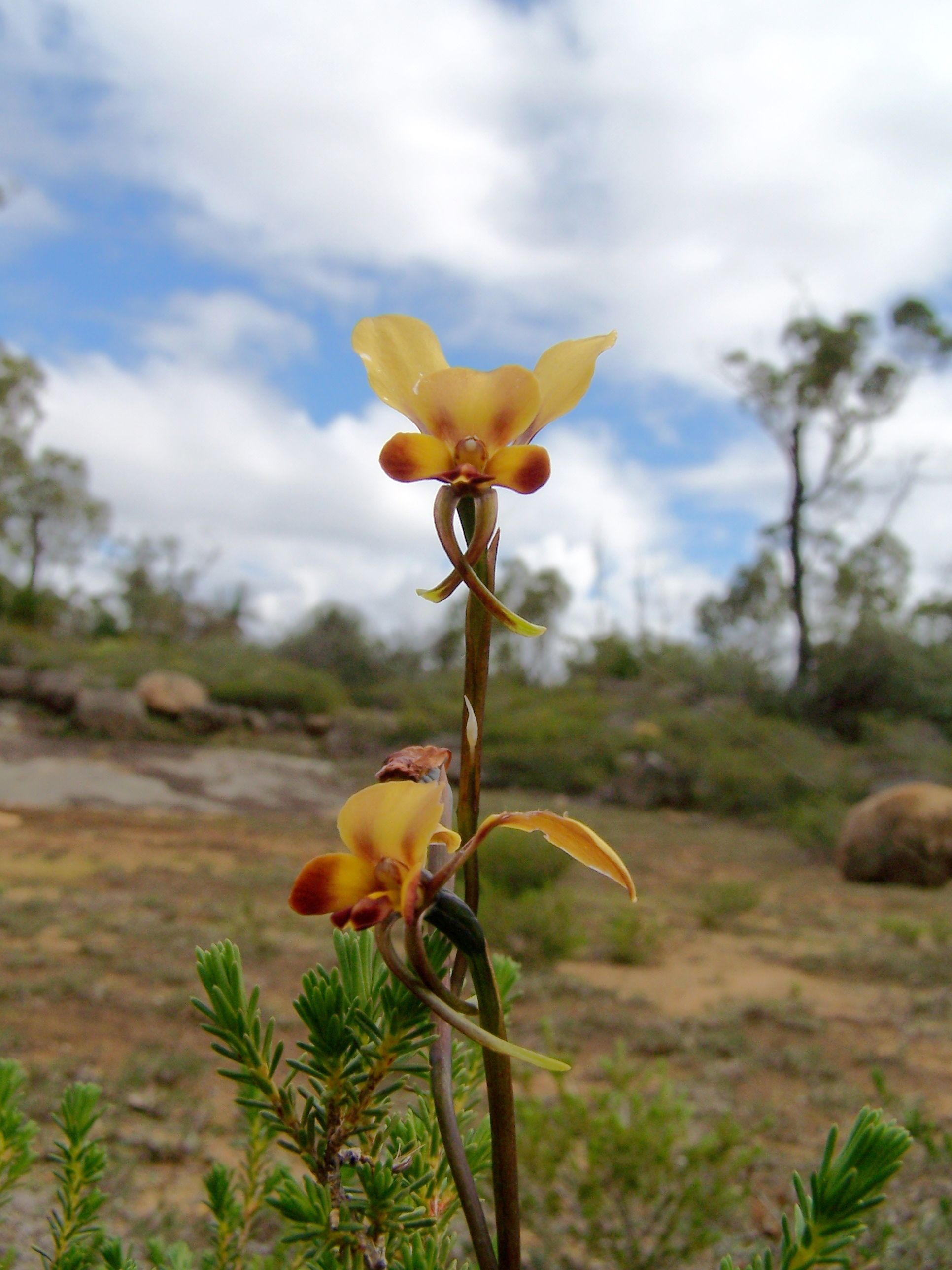 A Donkey Orchid, taken near the peak of Mount Dale in the Darling Escarpement, Western Australia - Diuris brumalis D.Jones